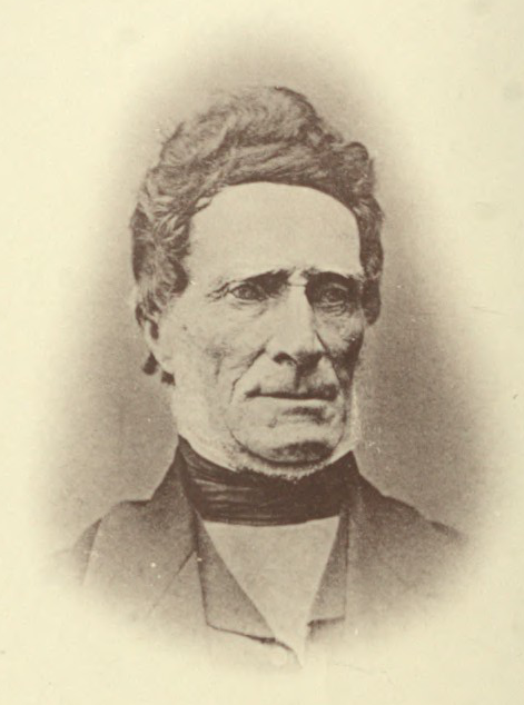 head and shoulders black & white photo of Laurence Edmondston 1795-1879